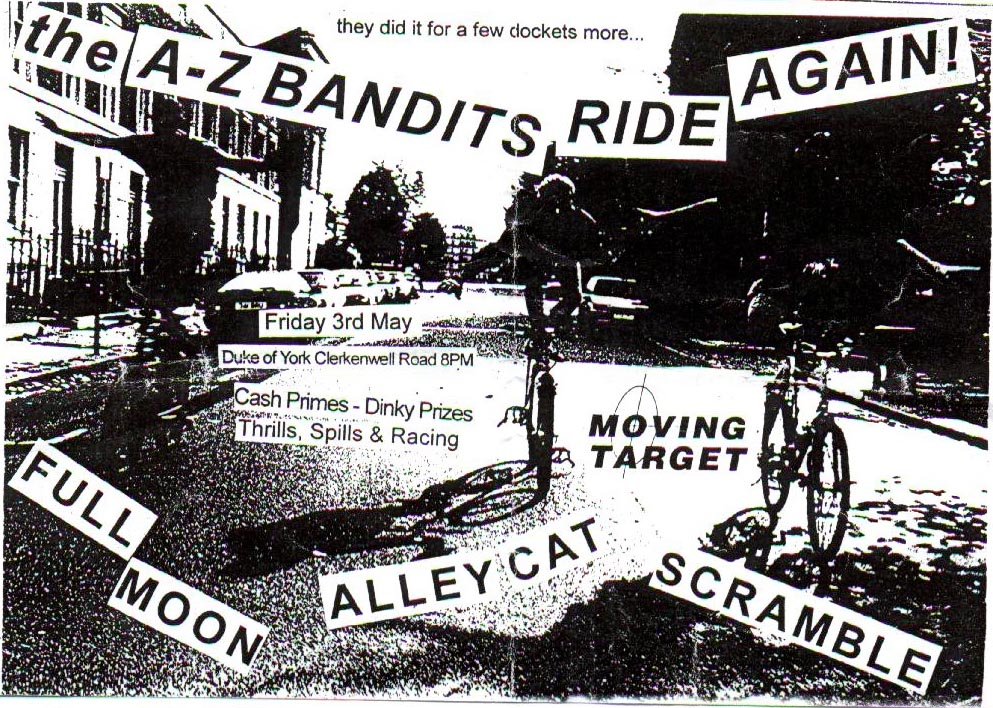 A-Z Bandits Full Moon Alleycat flier